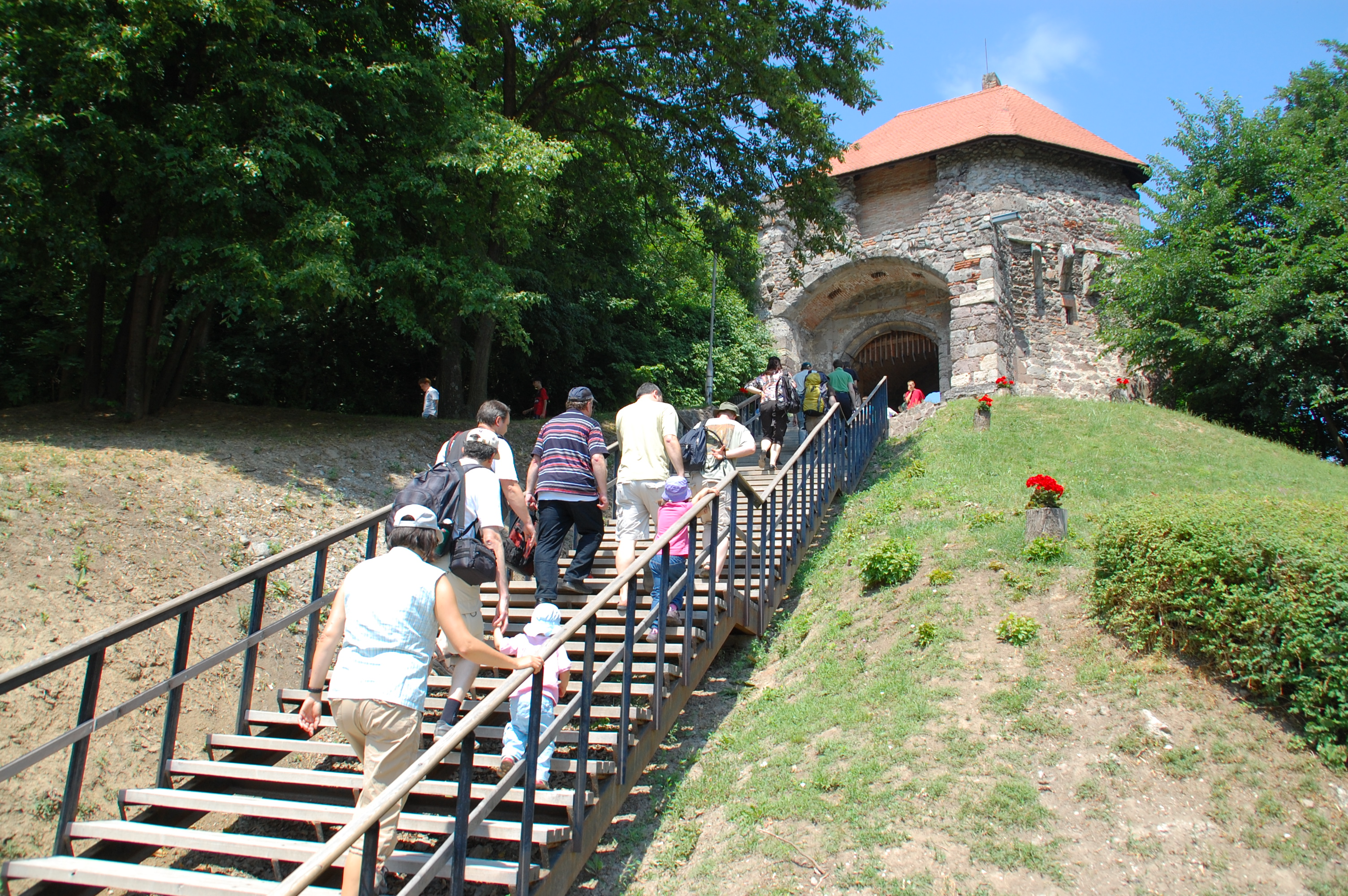 Meetup of the biologists of the German Wikipedia (de), 2011 in Dunabogdány, Hungary; Visegrád